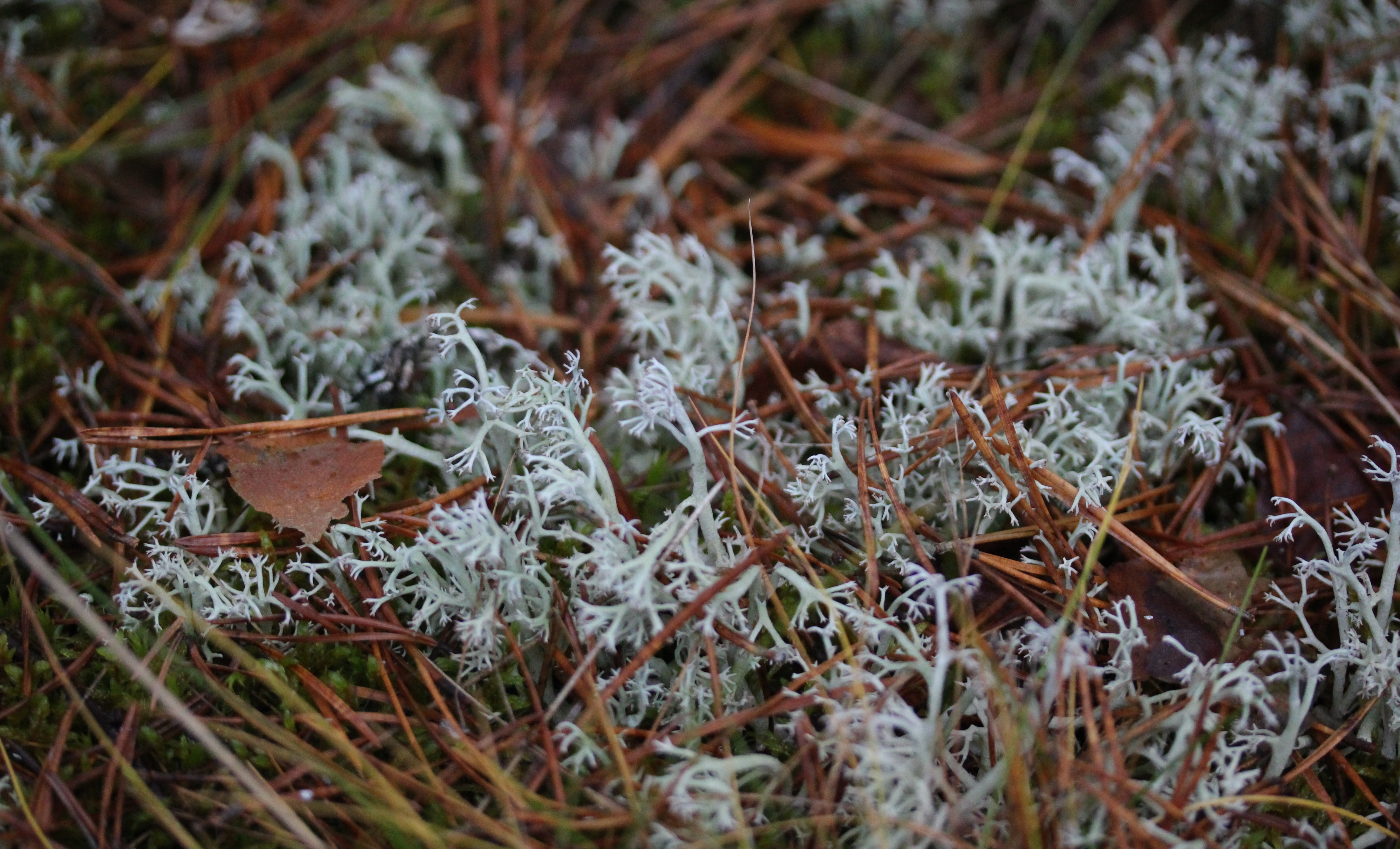 Raplamaa, Estonia. Cladonia arbuscula